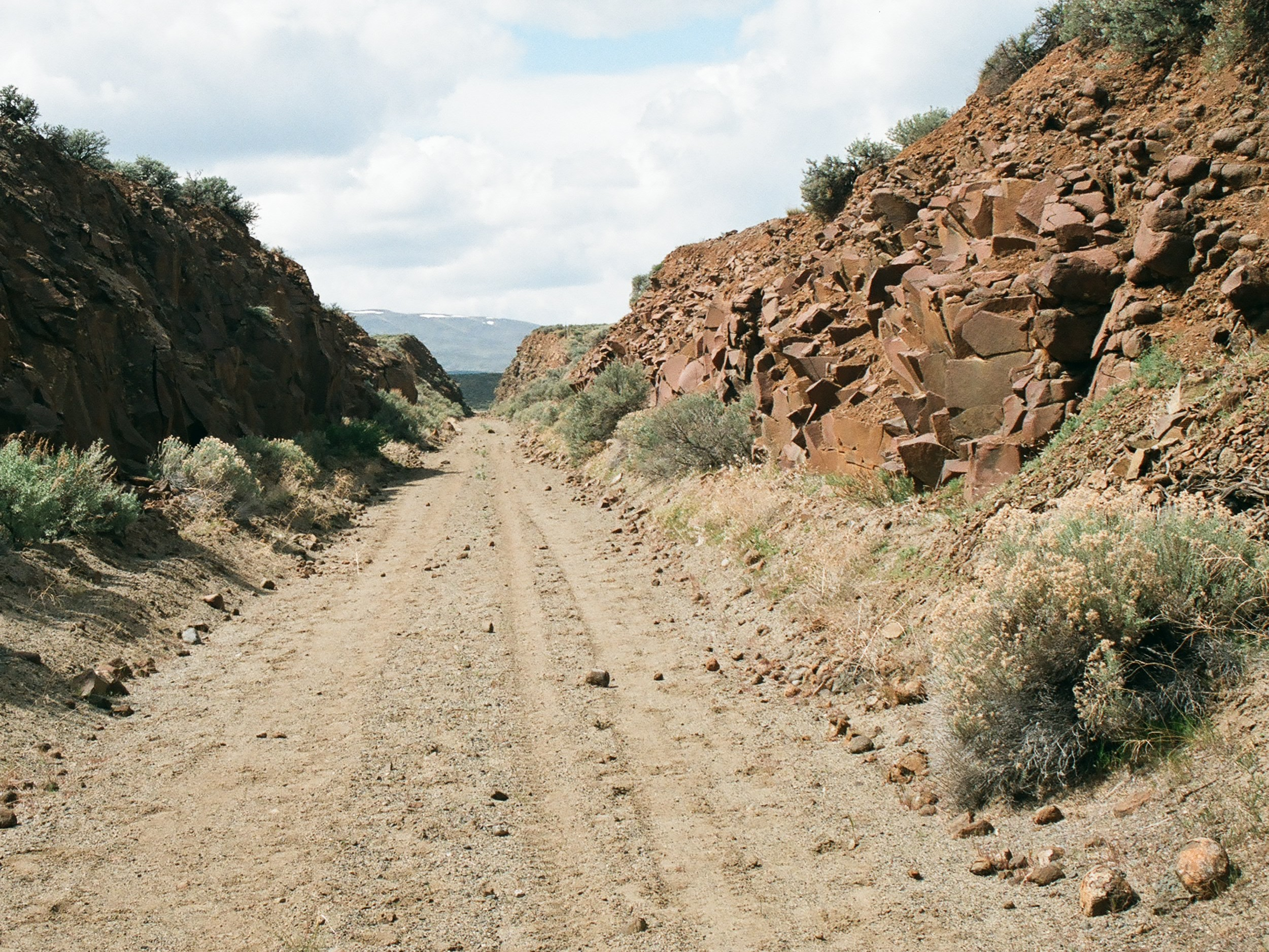 For use with the John Wayne Pioneer Trail article. The trail follows the former roadbed of the Chicago, Milwaukee, St. Paul and Pacific Railroad for 300 miles across two-thirds of Washington from the western slopes of the Cascade Mountains to the Idaho border. The Chicago, Milwaukee, St. Paul and Pacific Railroad right-of-way was acquired by Washington state and is used as a non-motorized recreational trail managed by the Washington State Parks and Recreation Commission and by the Washington State Department of Natural Resources. State legislation "railbanked" the corridor with provisions that allow for the reversion to rail usage in the future. The 100-mile portion from Cedar Falls (near North Bend) to the Columbia River just south of Vantage has been developed and is managed as the Iron Horse State Park. This photo is taken in a rail cut toward the western end of Iron Horse State Park just south of Vantage.